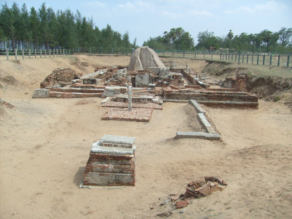 Front view of the Subrahmanya Temple, Saluvanakuppam. The temple was excavated after the Indian Ocean tsunami. The lowest layer of the site consisting of a brick shrine dates back to the Sangam period and might be the oldest of its kind to be discovered in Tamil Nadu. The shards of pottery (lower, right) are believed to be Sangam age artifacts.